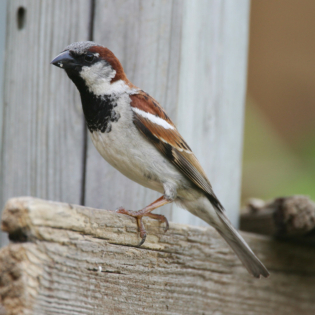 A male House Sparrow (Passer domesticus) in a backyard in Toronto, Canada, 2005